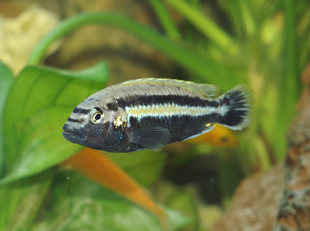 Melanochromis auratus, auratus cichlid, male